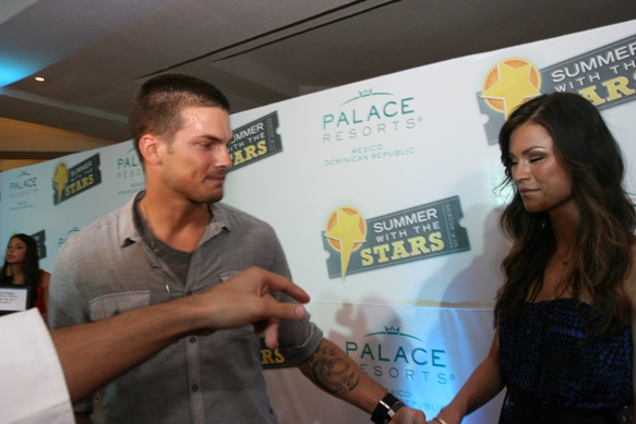 Rick Malambri